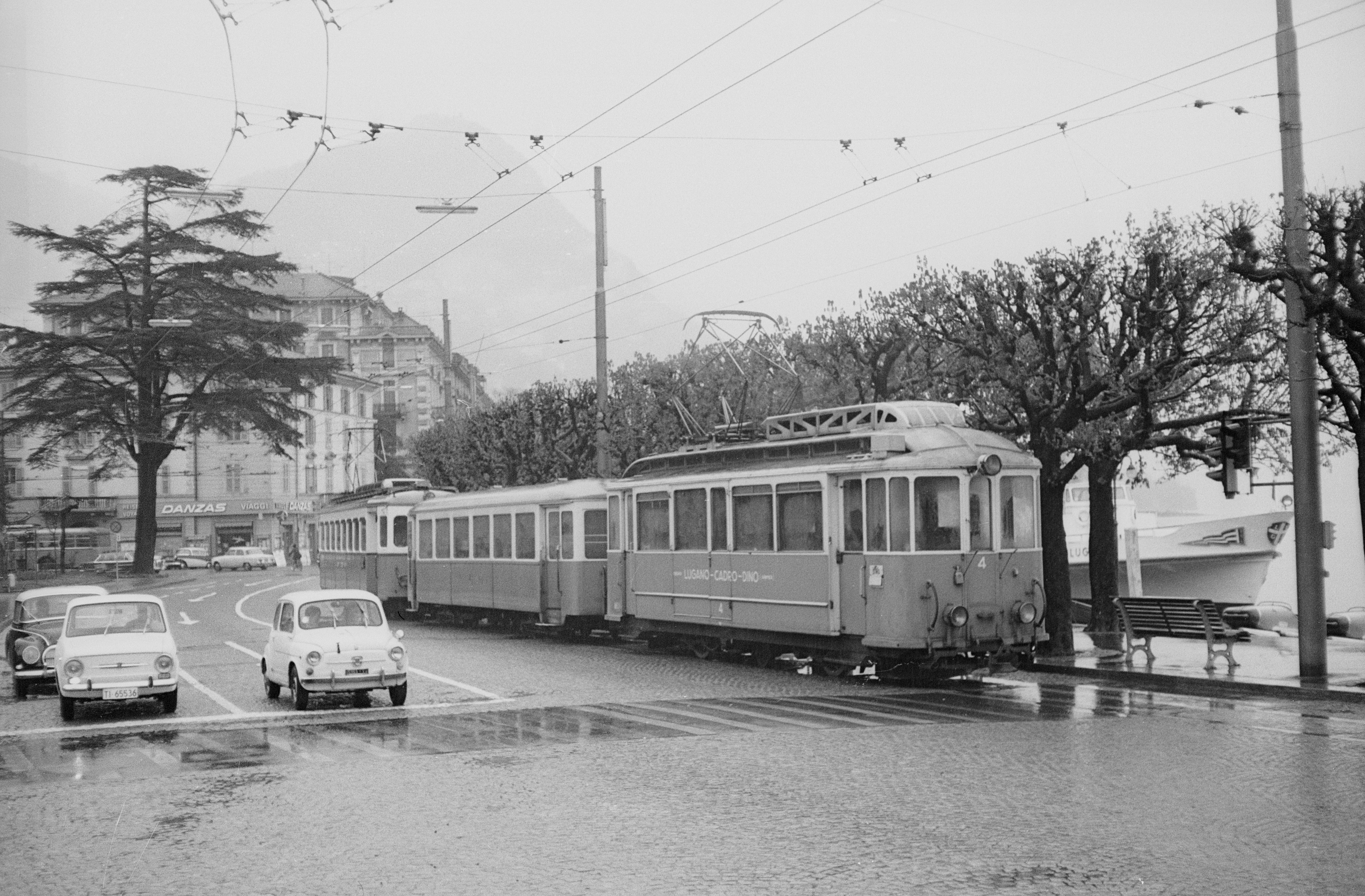 LCD BDe 2/3 4 in Lugano.